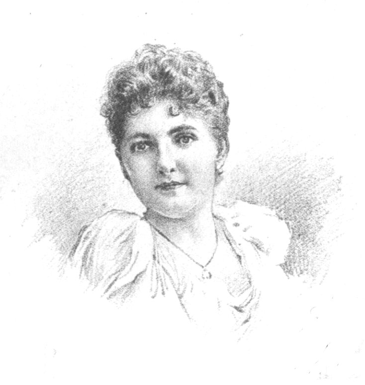 Portrait of Hedwig Hübsch, German actress from the turn of the 19th/20th centuries.